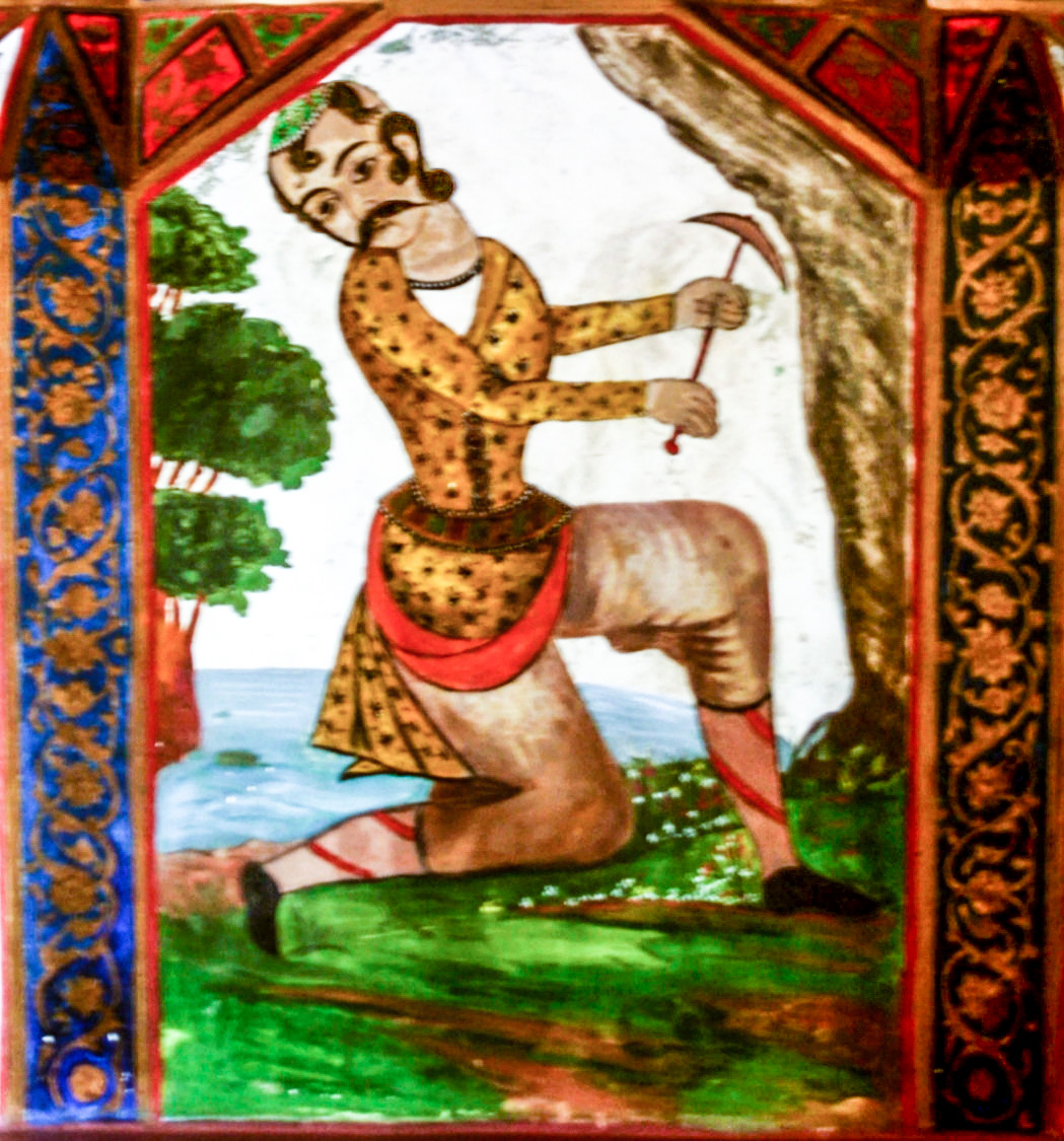 House of Shakikhanovs37 edited